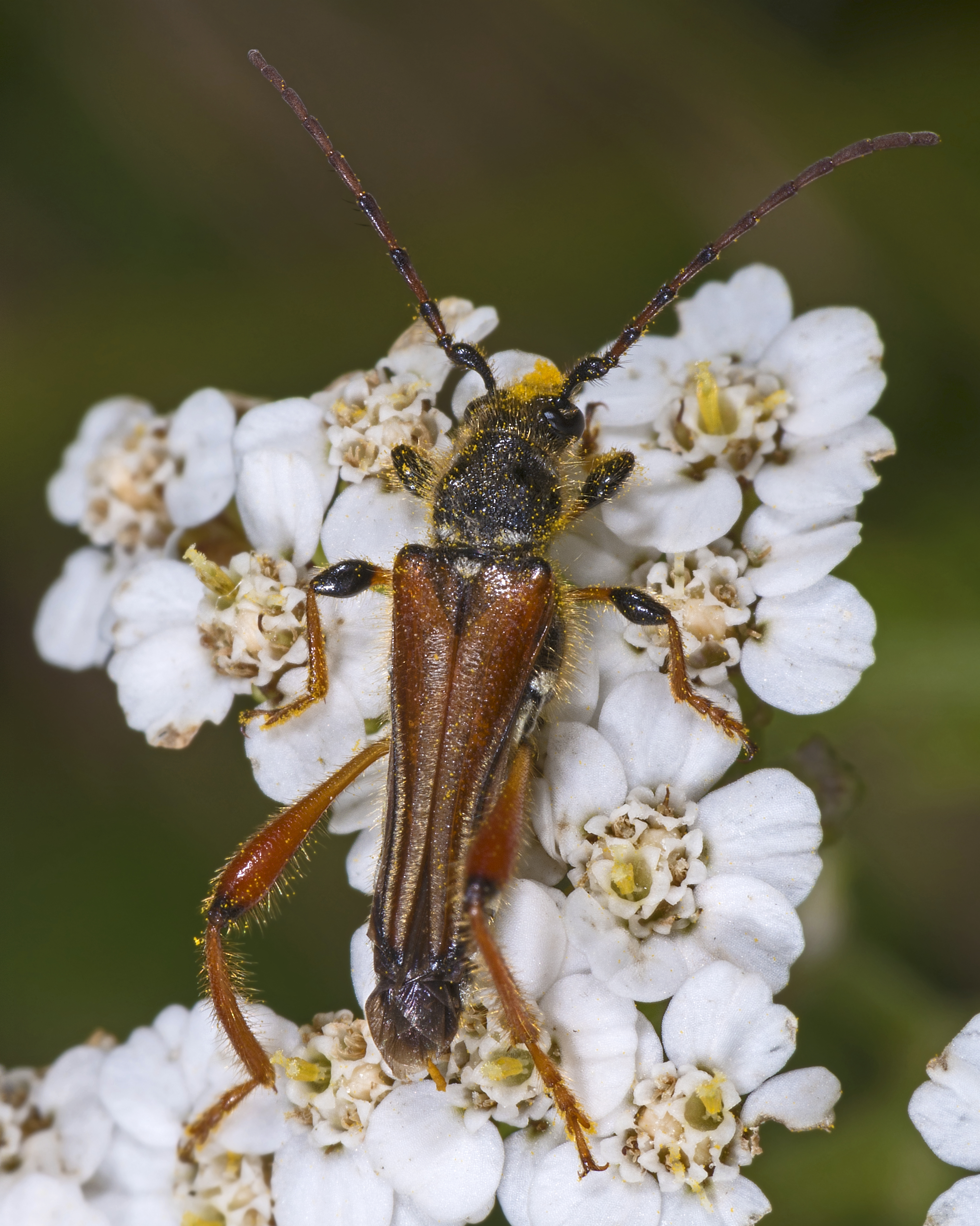 Stenopterus rufus on Achillea millefolium flowers